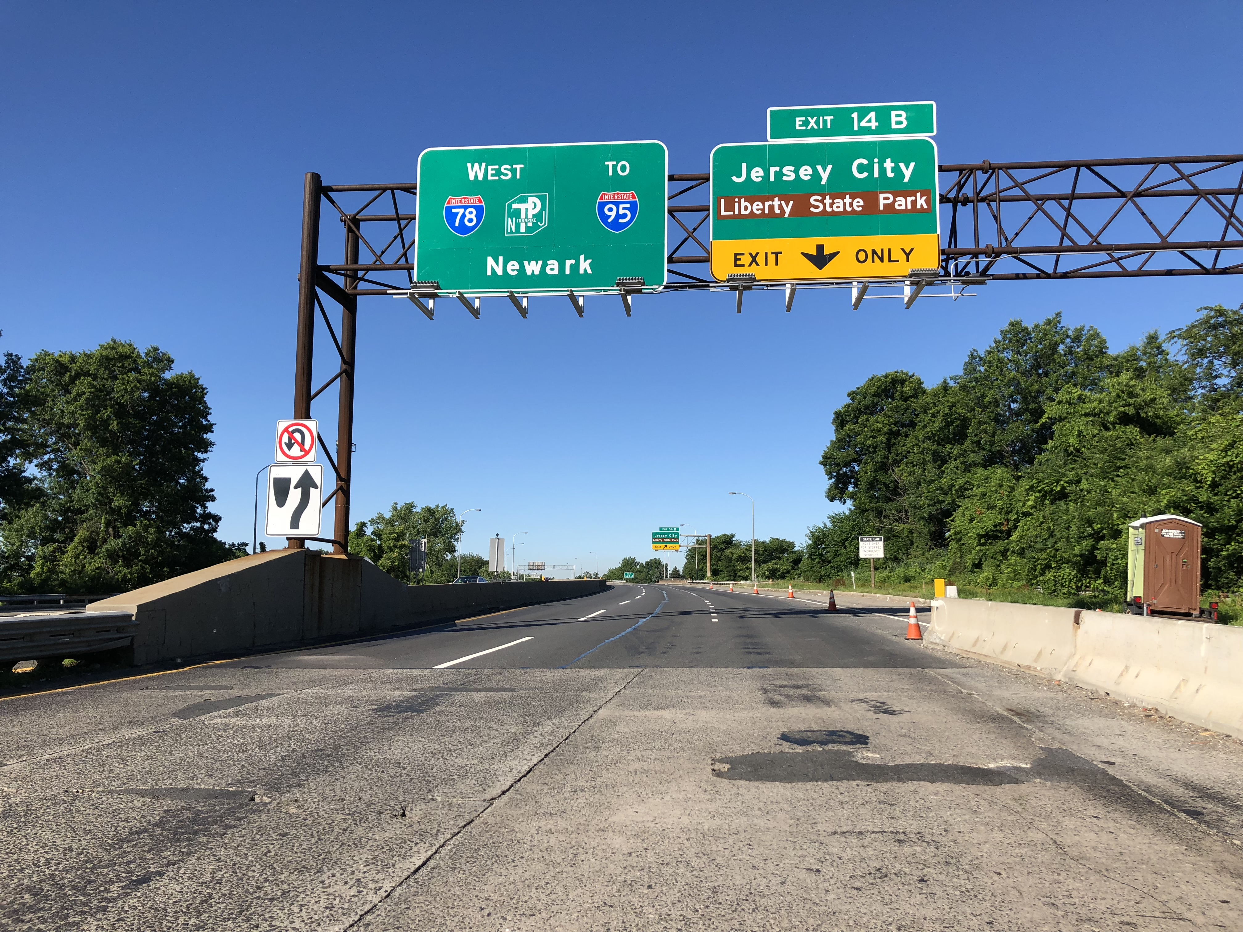 View west along Interstate 78 (New Jersey Turnpike Newark Bay Extension) just east of Exit 14B (Jersey City, Liberty State Park) in Jersey City, Hudson County, New Jersey